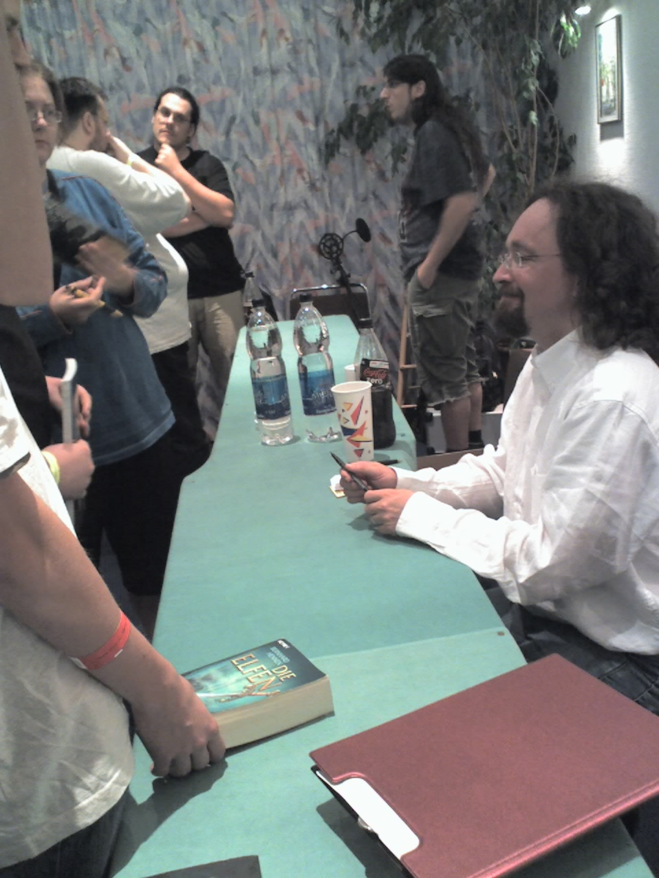 Fantasy author Bernhard Hennen signing books and early role-playing game (DSA) material at the Feen-Con 2007 in Bonn.